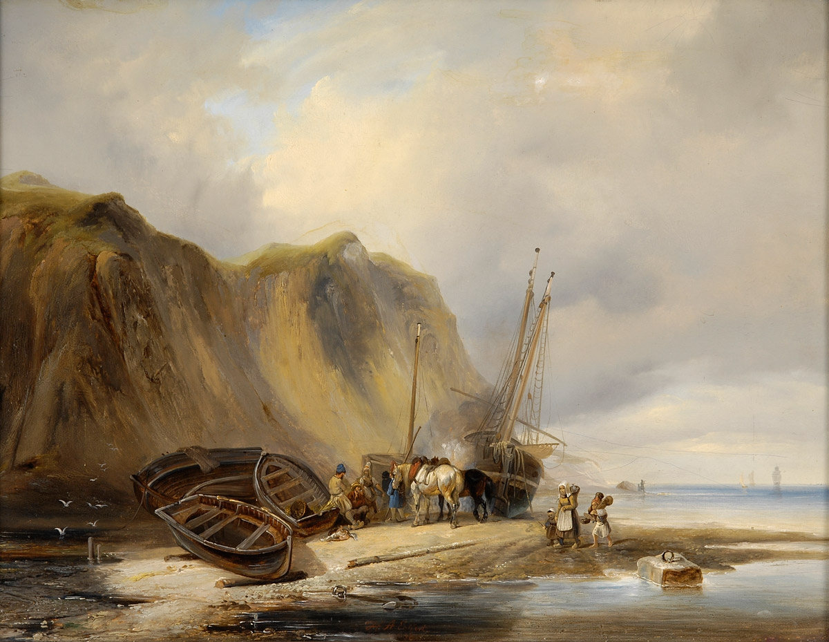 Beach scene with fishermen. Signed and dated.